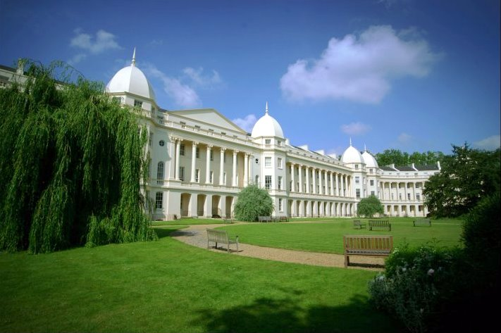 London Business School facade